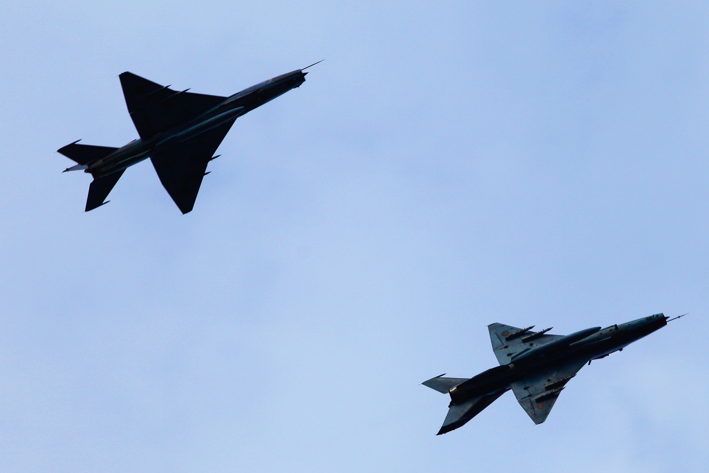 Bangladesh Air Force F-7 BG Fly Pass over Hazrat Shahjalal International Airport Dhaka - DAC / VGHS